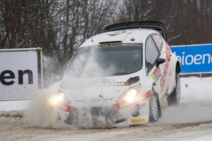 Rally Sweden 2014 Ford Fiesta RS WRC,Henning Solberg,Ilka Minor,Kirkener 1,Motorsport,Rally,Rally Sweden,Rallye,Rallye Schweden,SS3,WP3